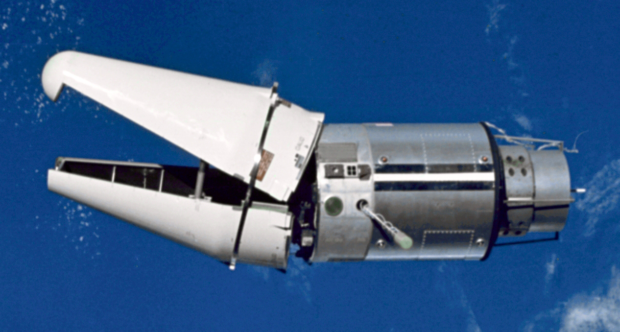 The Augmented Target Docking Adapter (ATDA) as seen from the Gemini 9 spacecraft during one of their three rendezvous in space. The ATDA and Gemini 9 spacecraft are 66.5 ft. apart. Failure of the docking adapter protective cover to fully separate on the ATDA prevented the docking of the two spacecraft. The ATDA was described by the Gemini 9 crew as an "angry alligator."